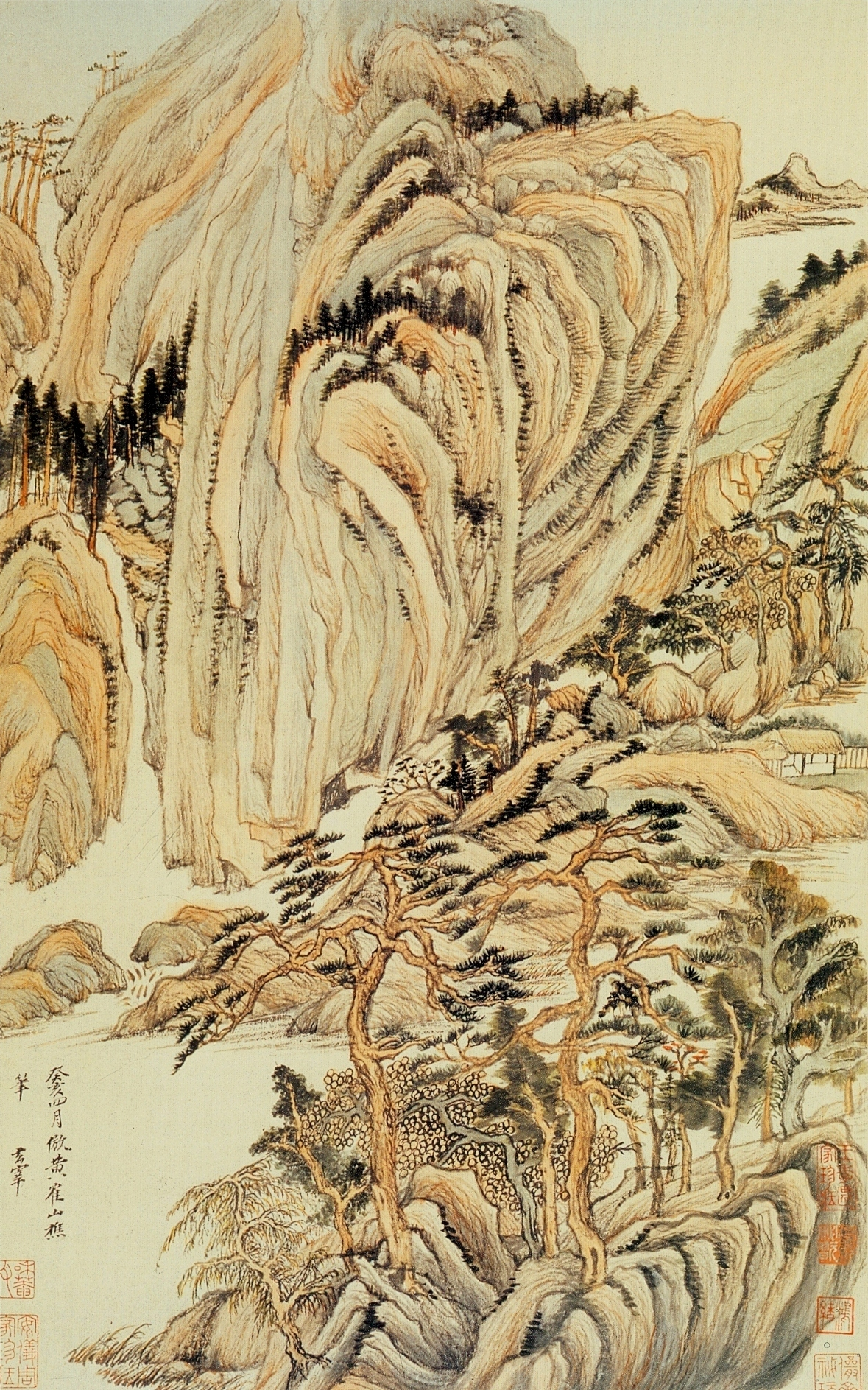 Dong_Qichang. Landscapes_in_the_Manner_of_Old_Masters_(Wang_Wei). 1621-24. _Album_leaf. Ink and colours on paper. 56.2 x 36.2 cm. Nelson-Atkins_Museum